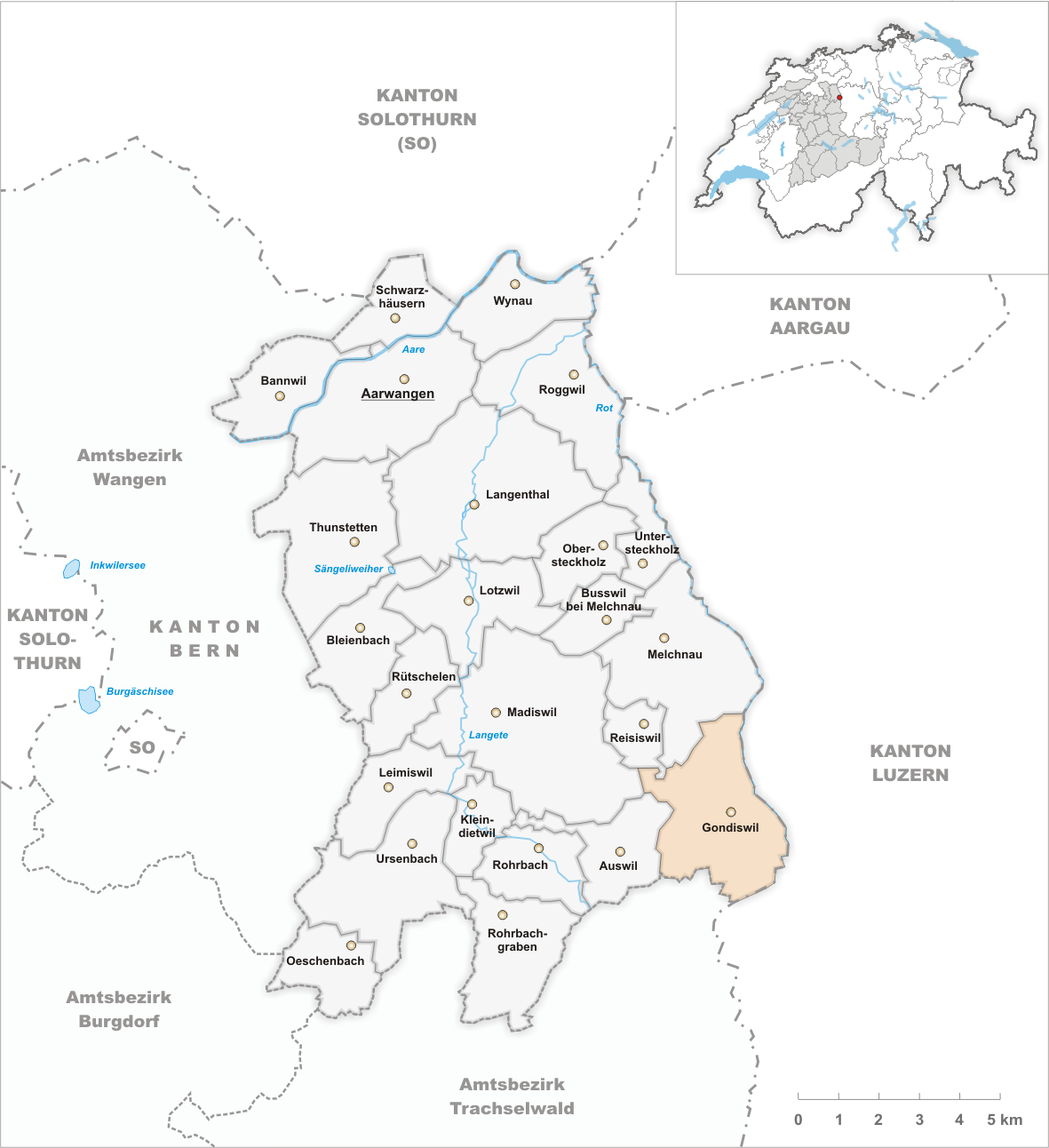 Municipality Gondiswil